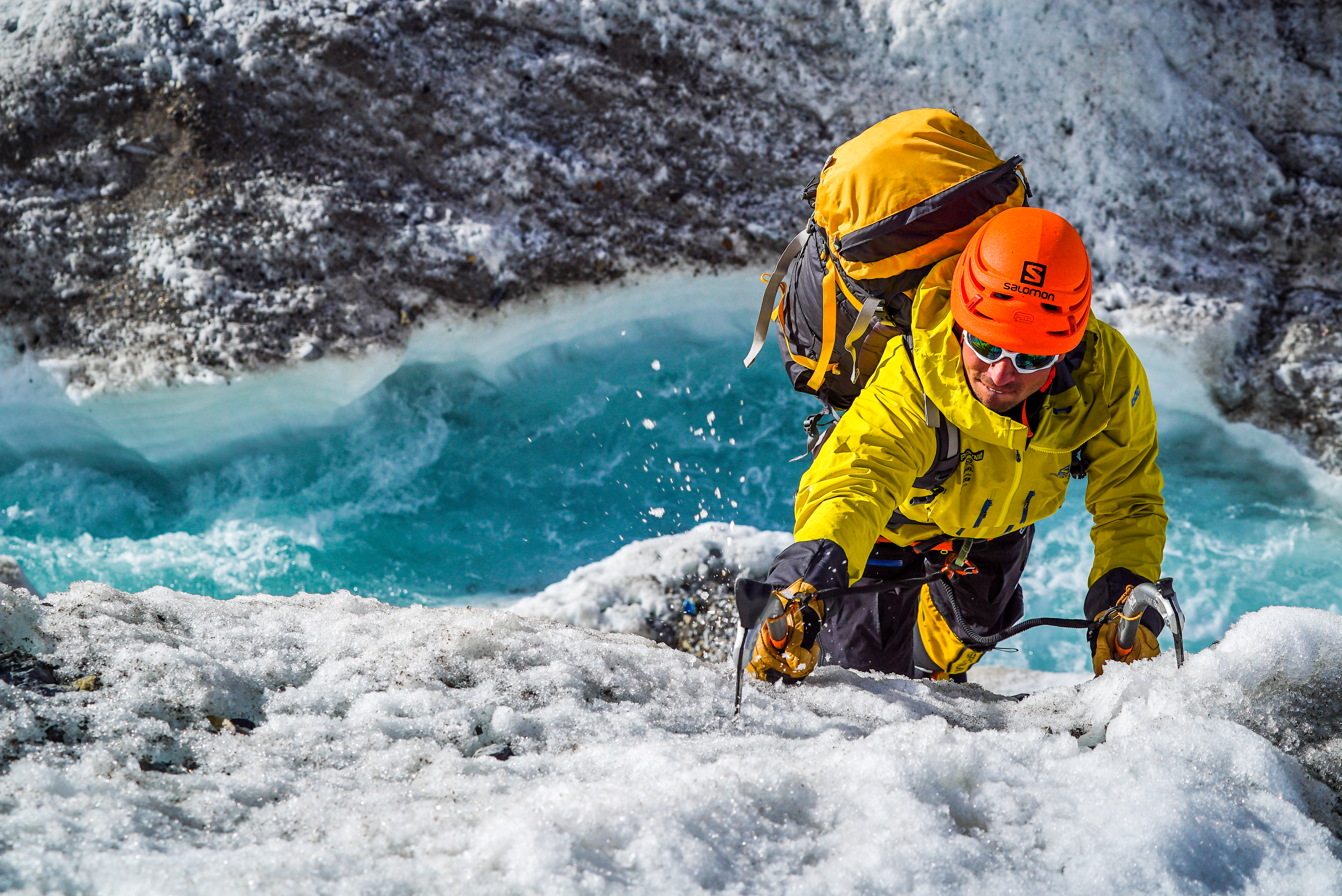 Tomas Petrecek - Expedice Gasherbrum I - 2015